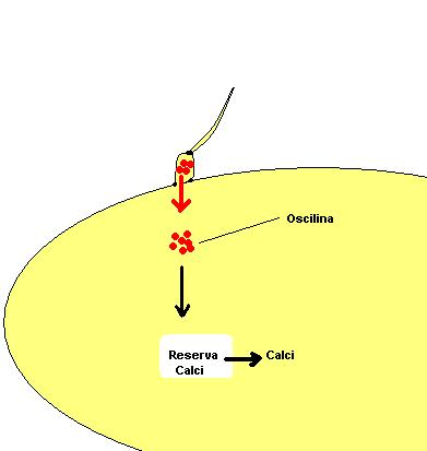 Introduccion of oscillin in ovule.